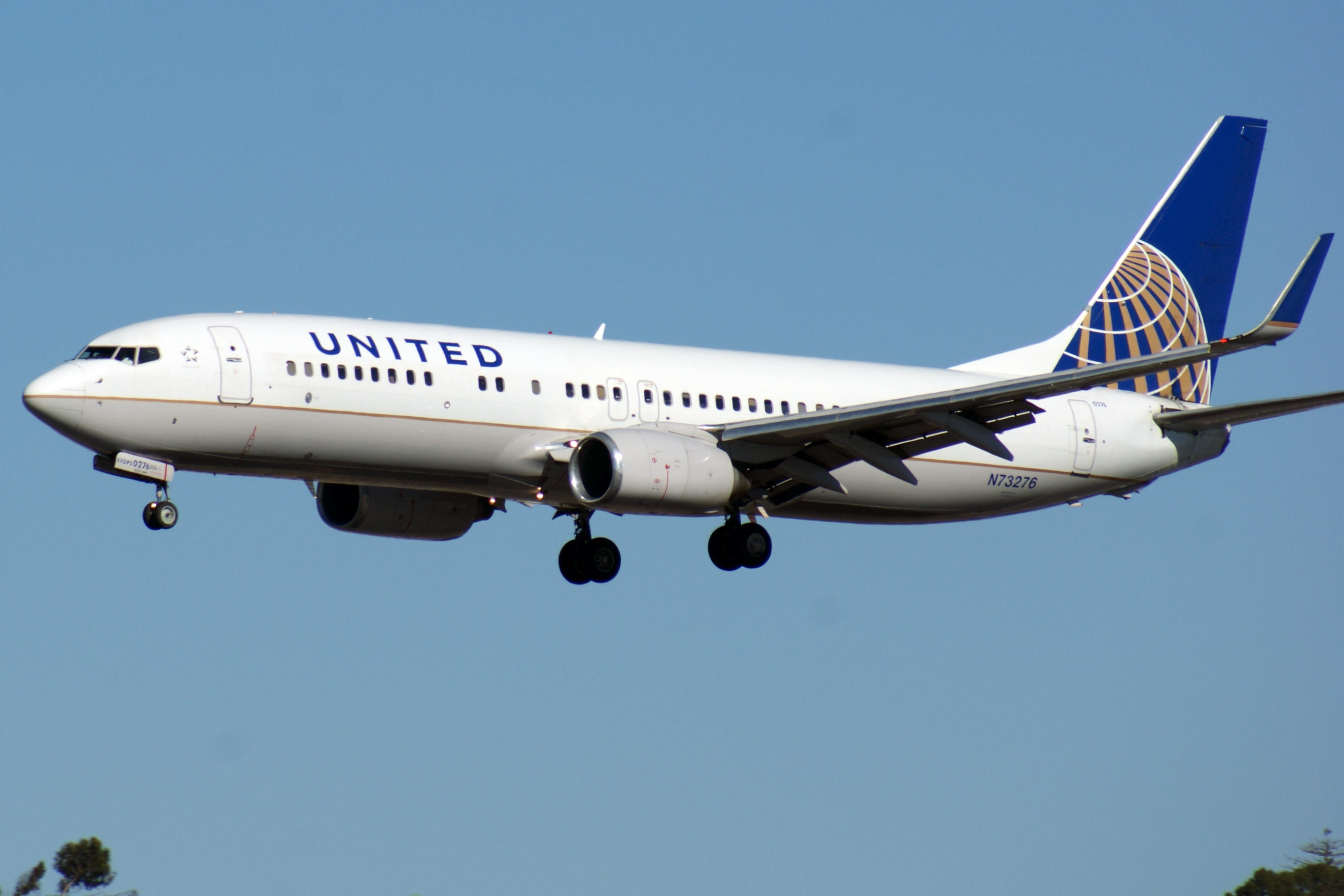 N73276 from Houston (IAH) landing at San Diego. I was very lucky to be spotting today. This might be the first of the new United jets to land in San Diego. And it looks like this is the first picture on Flickr of this 737 in the new livery.